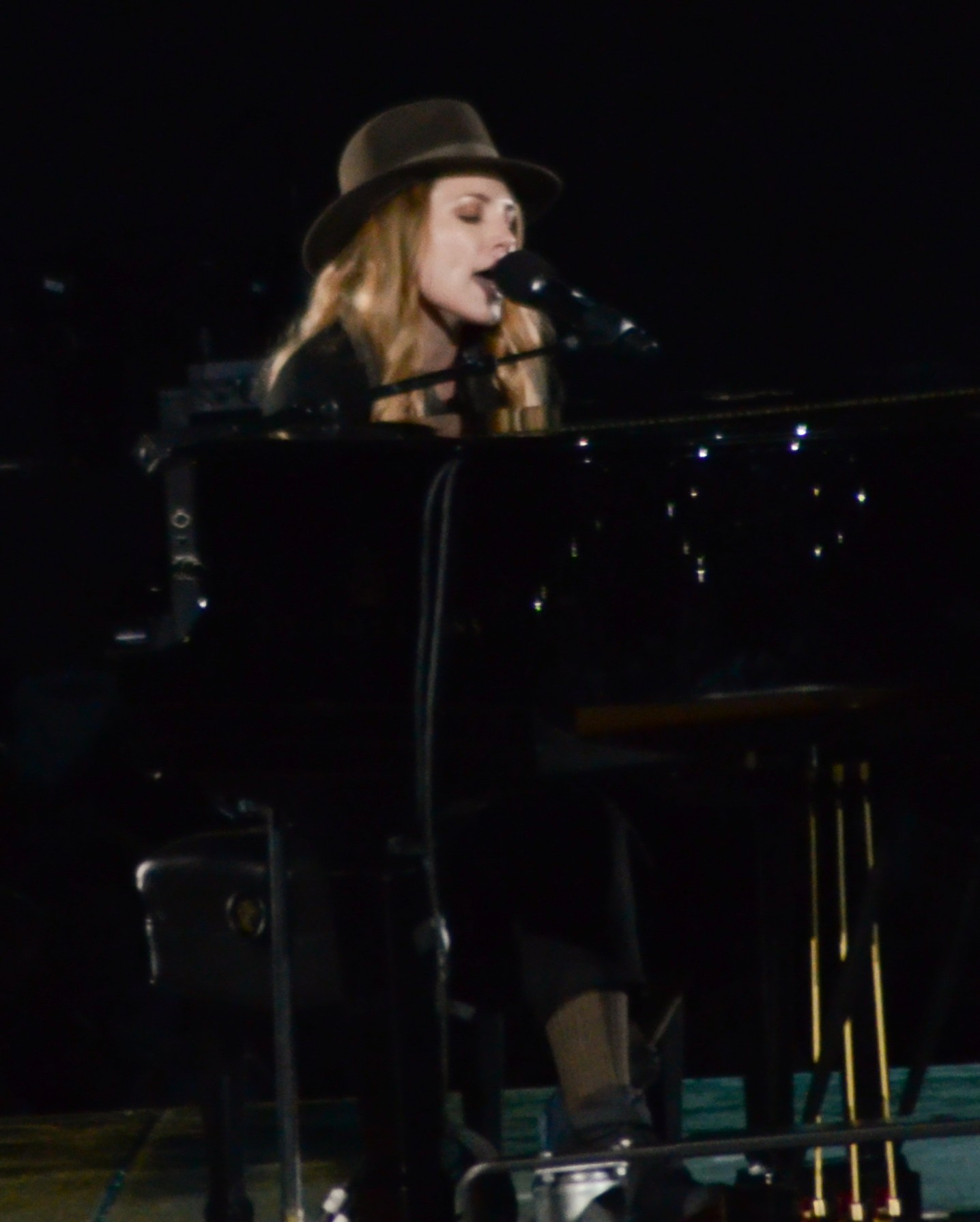 Skylar Grey performing in 2014